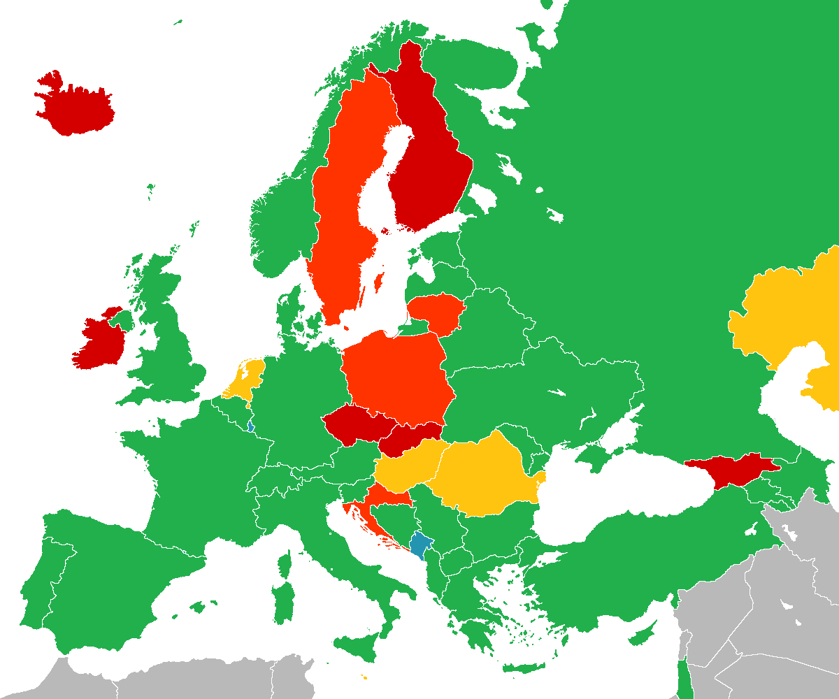 Map of the participants of the 2010 EuroVoice. Green - Countries that will participate in the Super Final Red - Countries that didn't proceed to the internet stage Yellow - Countries that were eliminated from the list of finalists due to rule violation Orange - Countries that didn't pass the jurystage Blue - No artist